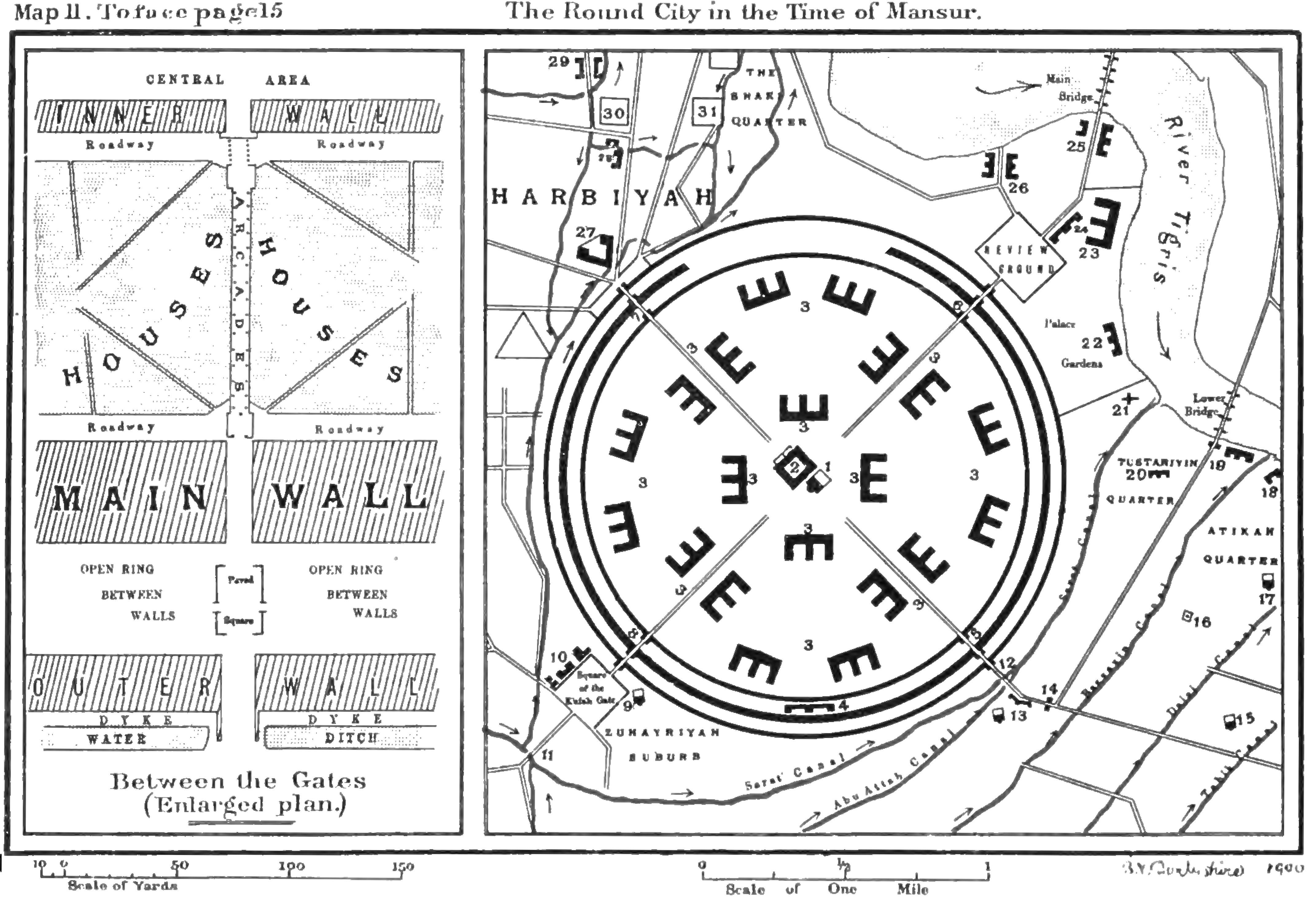 The Round City of Baghdad in the time of Caliph al-Mansur. References to map: 1. Mosque of Mansur 2. Palace of the Golden Gate with the two Galleries facing the Syrian Gate 3. Various public offices, viz. Treasury, Armoury, Chancery, Land Tax Office, Public Bakery, Pay Office, Chamberlain's Office, and Palaces of the younger sons of the Caliph 4. The Prison called Al-Matbak 5. The Basrah Gate 6. The Khurasan Gate 7. The Syrian Gate 8. The Kufah Gate 9. Mosque of Musayyib 10. House of the Gate-keepers, Diwan of the Sadakah (Poor Tax Office). The Stables and Dromedary House 11. The Old Bridge 12. The New Bridge 13. Palace and Mosque of Waddah 14. The Harrani Archway 15. The Mosque of the Sharkiyah Quarter 16. The Tomb of Ma'ruf Karkhi 17. Shrine of Ali, called Mashhad-al-Mintakah 18. Dar-al-Jawz (the Nut-house) 19. Palace of Humayd ibn Abd-al-Hamid and the Barley Gate (Bab-ash-Sha'ir) 20. Palace of Adud-ad-Din, the Wazir 21. The Old Convent at the Sarat Point 22. The Karar Palace of Zubaydah 23. The Palace of the Khuld 24. The Royal Stables 25. Office of the Bridge Works and Hall of the Chief of Police 26. Palaces of the Princes Sulayman and Salih 27. Prison of the Syrian Gate 28. Palace of Sa'id-al-Khatib and the Orphan School 29. Dukkan-al-Abna (the Persian Shops) 30. Quadrangle of the Persians 31. Quadrangle of Shabib